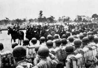 THE CHINESE NATIONAL HOLIDAY (OCTOBER 10) WAS CELEBRATED BY THE NEW FIRST ARMY IN MYITKYINA WITH A MILITARY PARADE